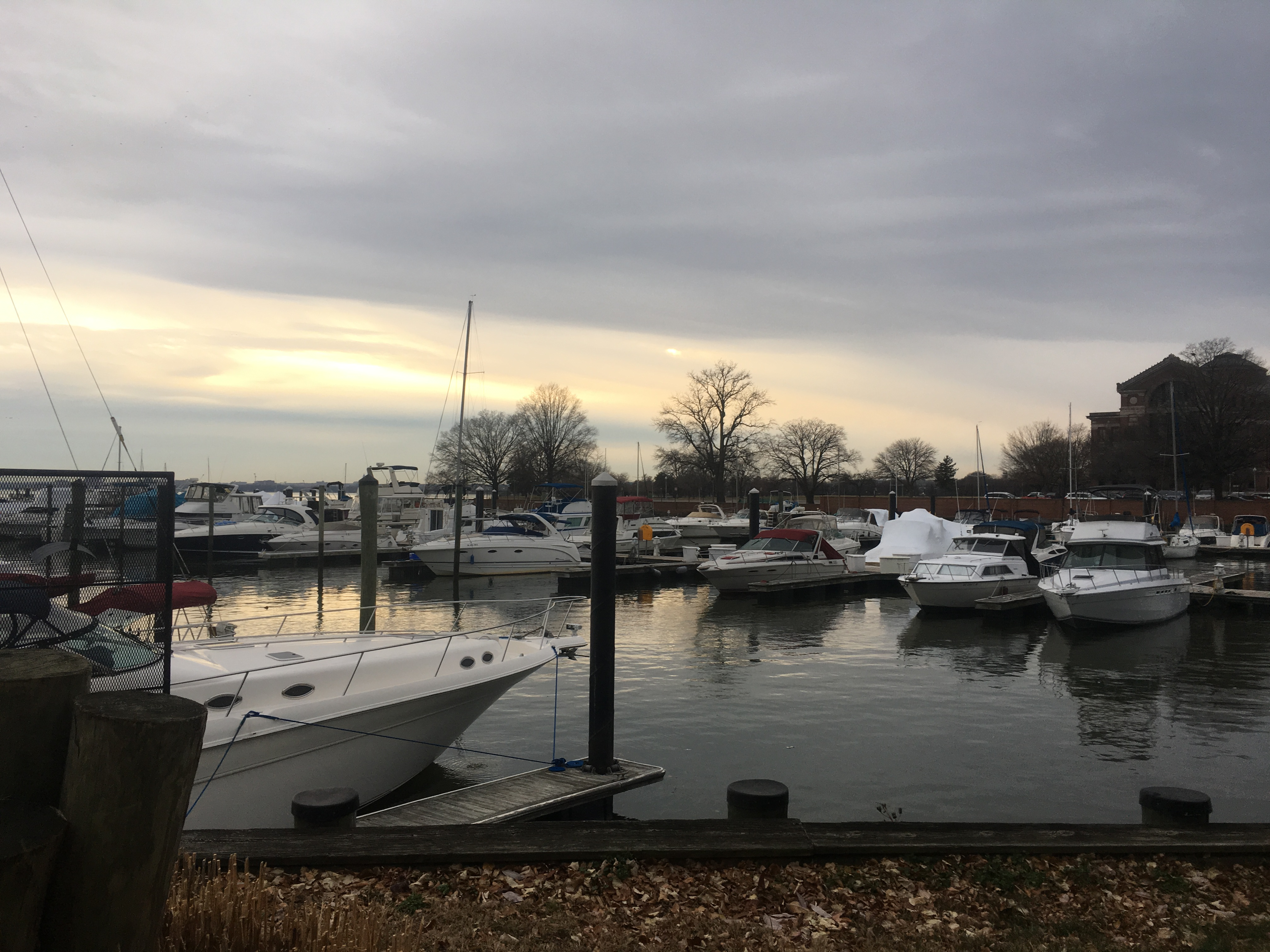 Evening view of the James Creek Marina, December 2017, facing Southwest toward Fort McNair